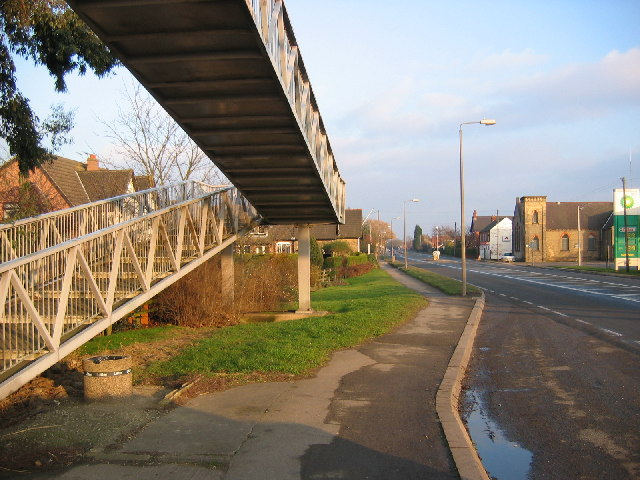 Gilberdyke, East Riding of Yorkshire, England.Looking east along the B1230 through Gilberdyke.